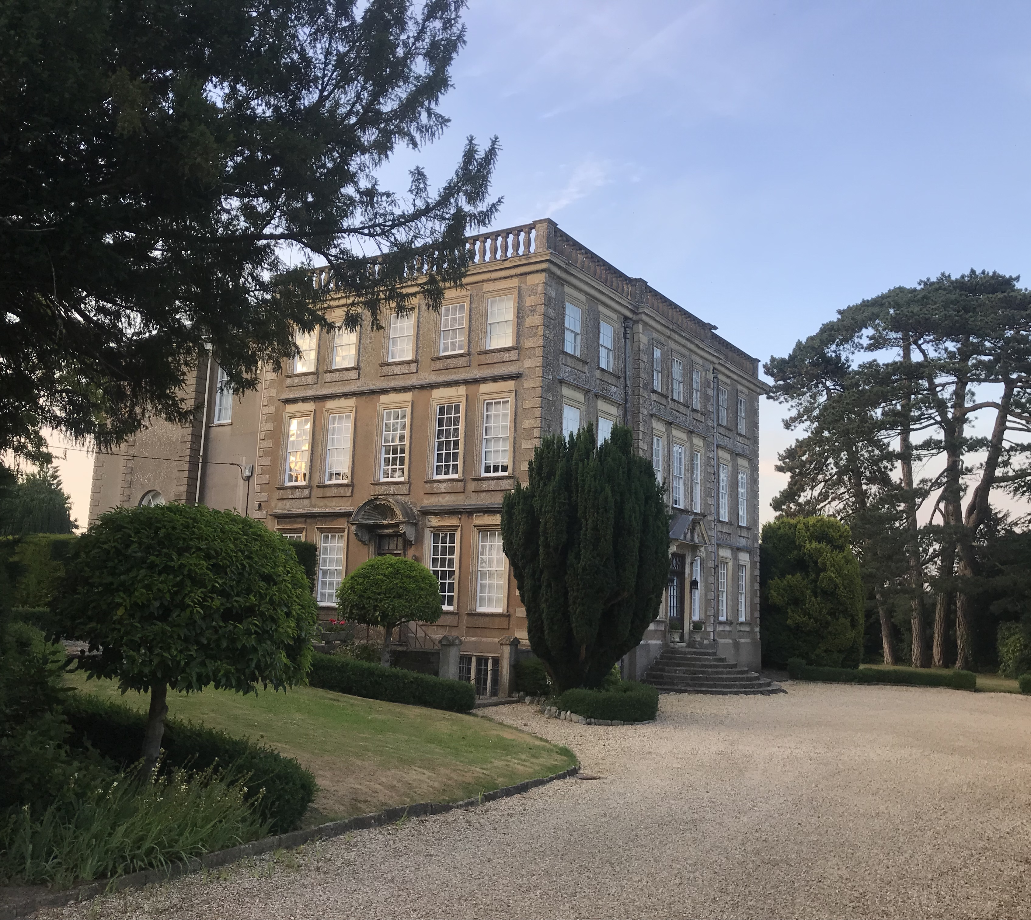 Bratton House, Melbourne Street, Bratton, Wiltshire